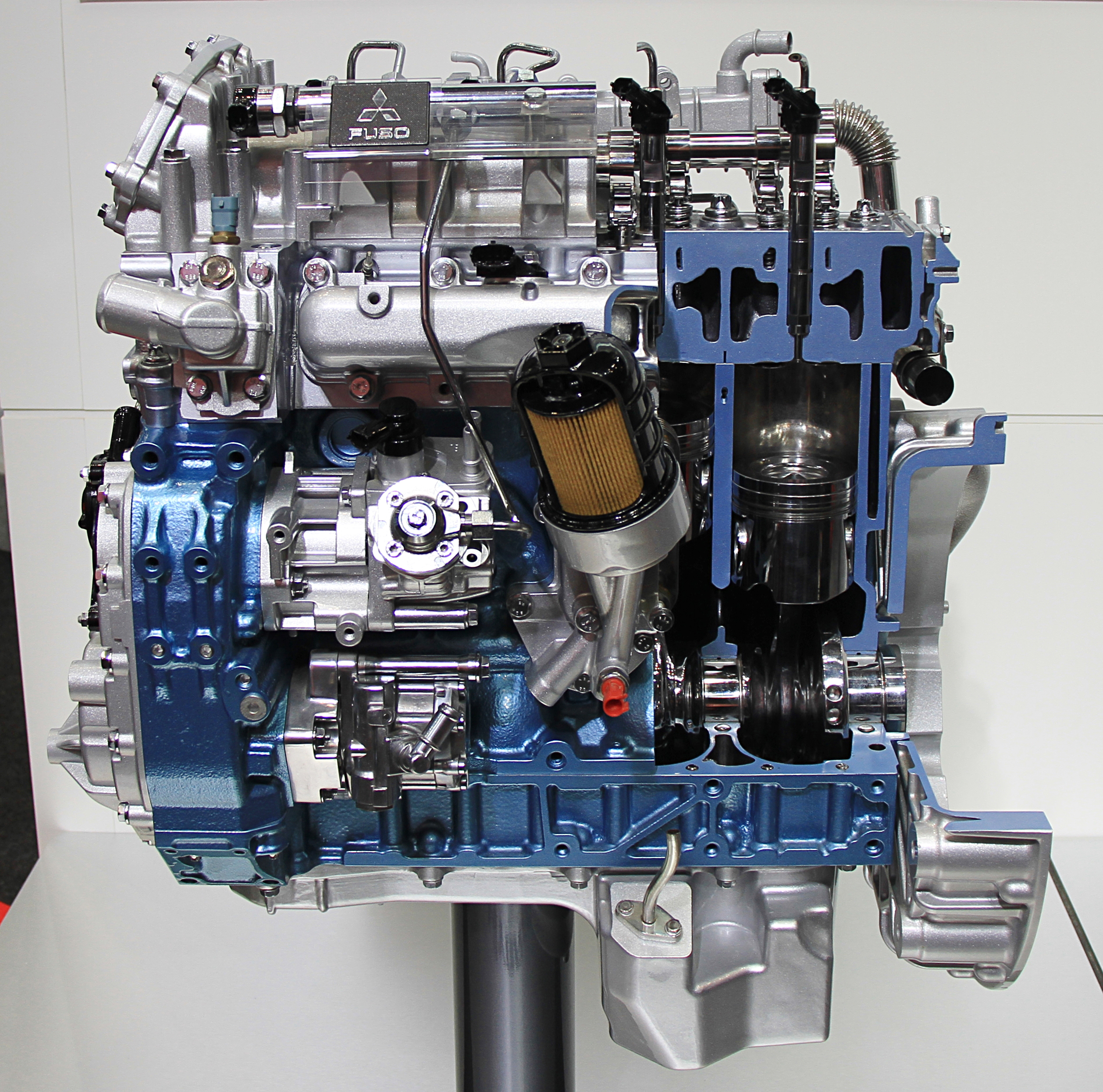 Fuso 4P10